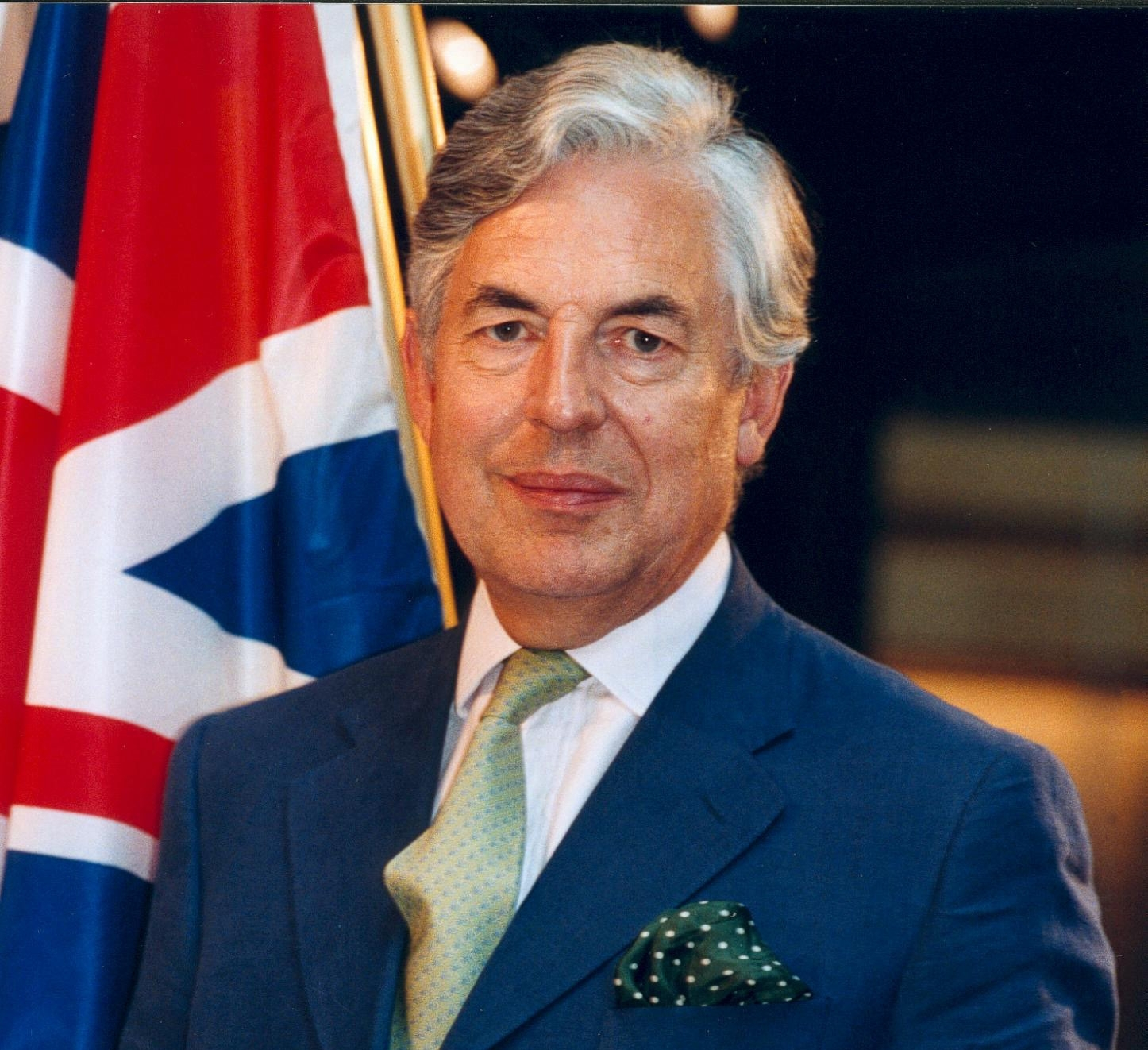 A photo of Geoffrey Van Orden.